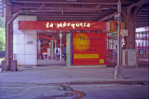 Looking south across East 115th Street at La Marqueta, a marketplace under the train tracks in East Harlem. ZIP 10029.